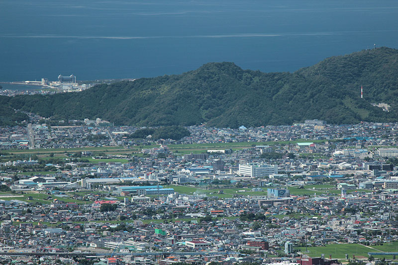 Mount Yoko (Yoko-yama) as seen from the east in the border between Numazu and Shimizu.